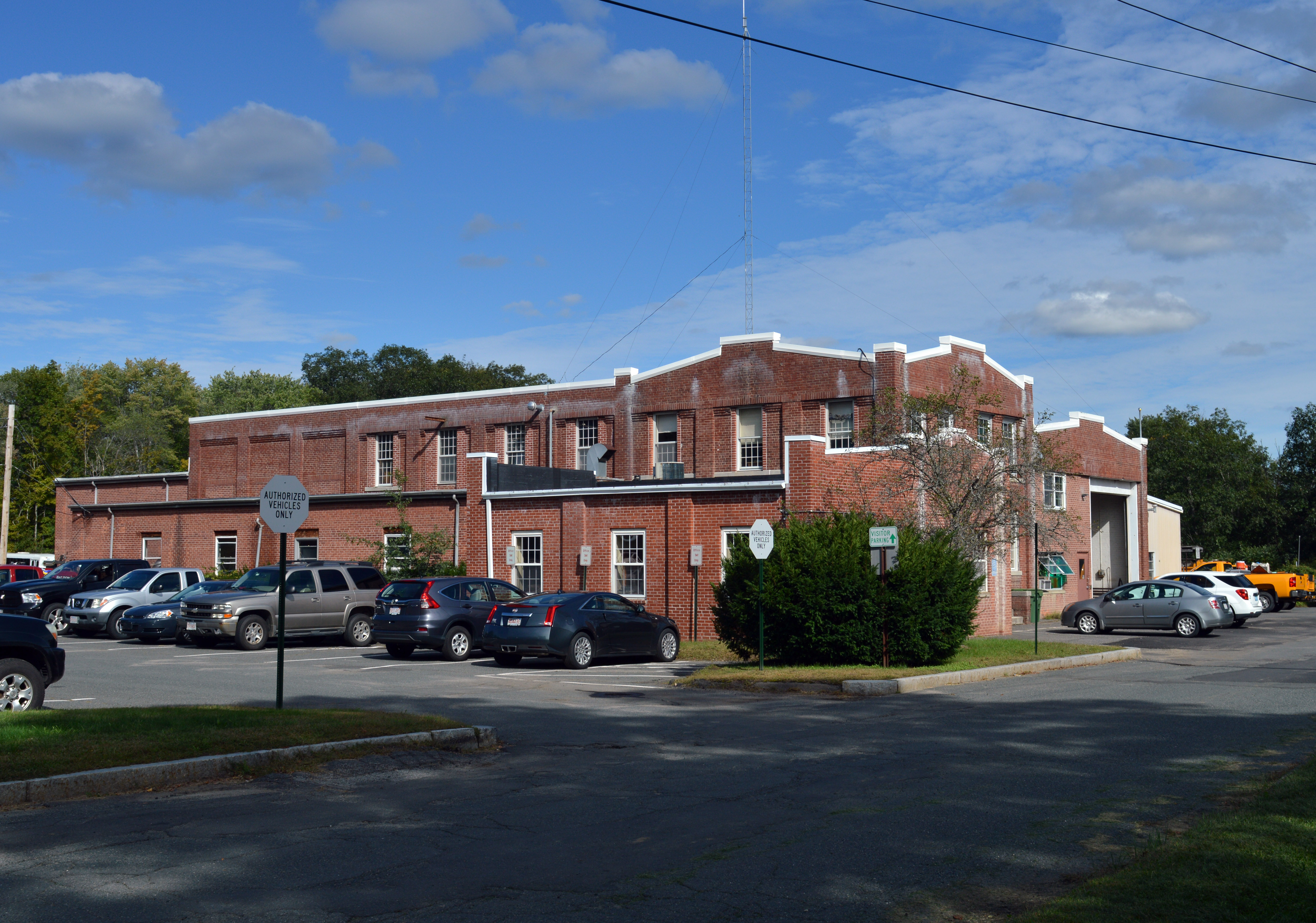 The former car barn of the Amherst & Sunderland Street Railway division of the Holyoke Street Railway; built in 1917, following a dramatic decline in revenue and change over to buses the building was sold by the railway system to the town of Amherst, Massachusetts, which has maintained it as its Department of Public Works headquarters since.